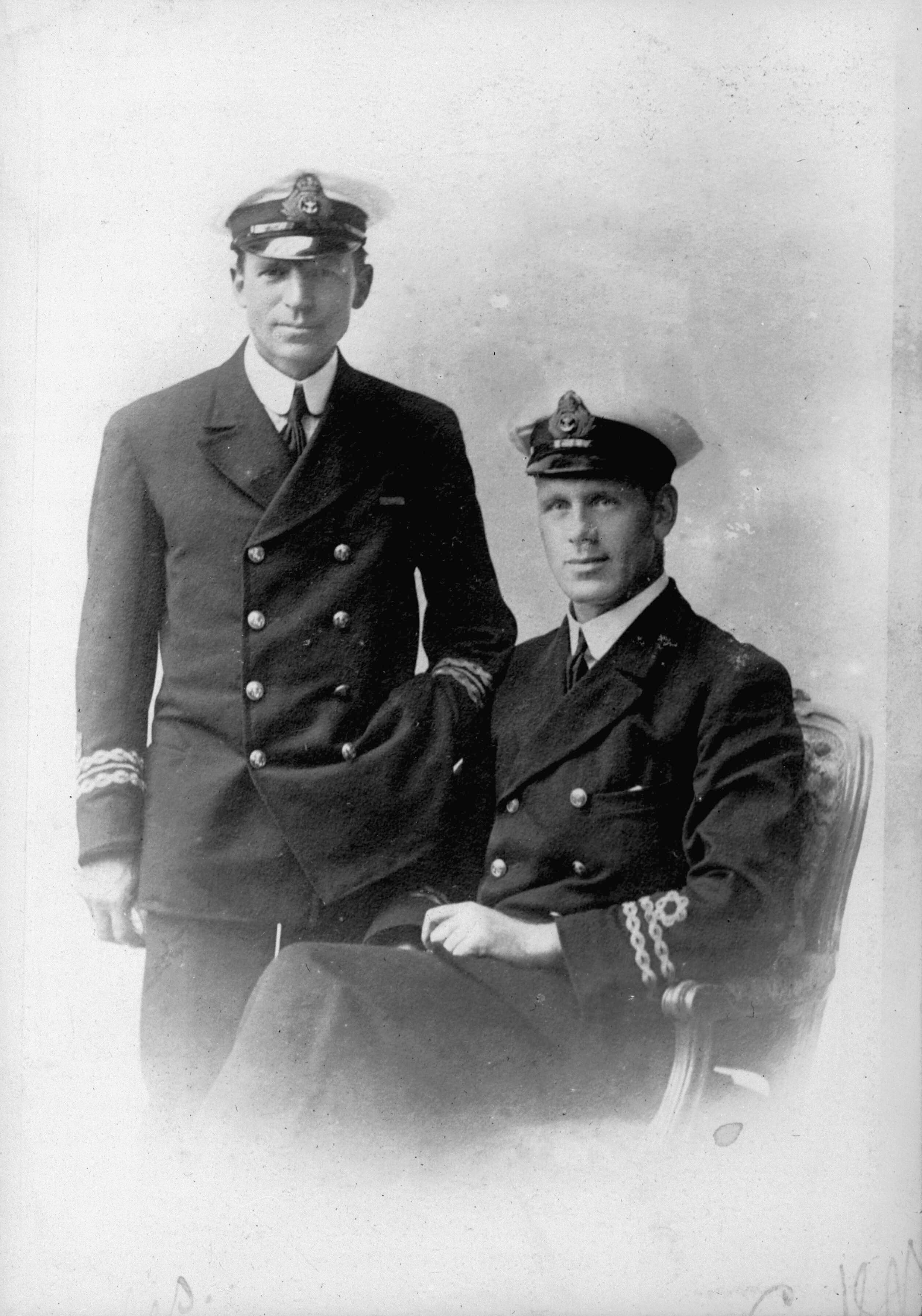 Depicted people: Frank Worsley and Joseph Stenhouse